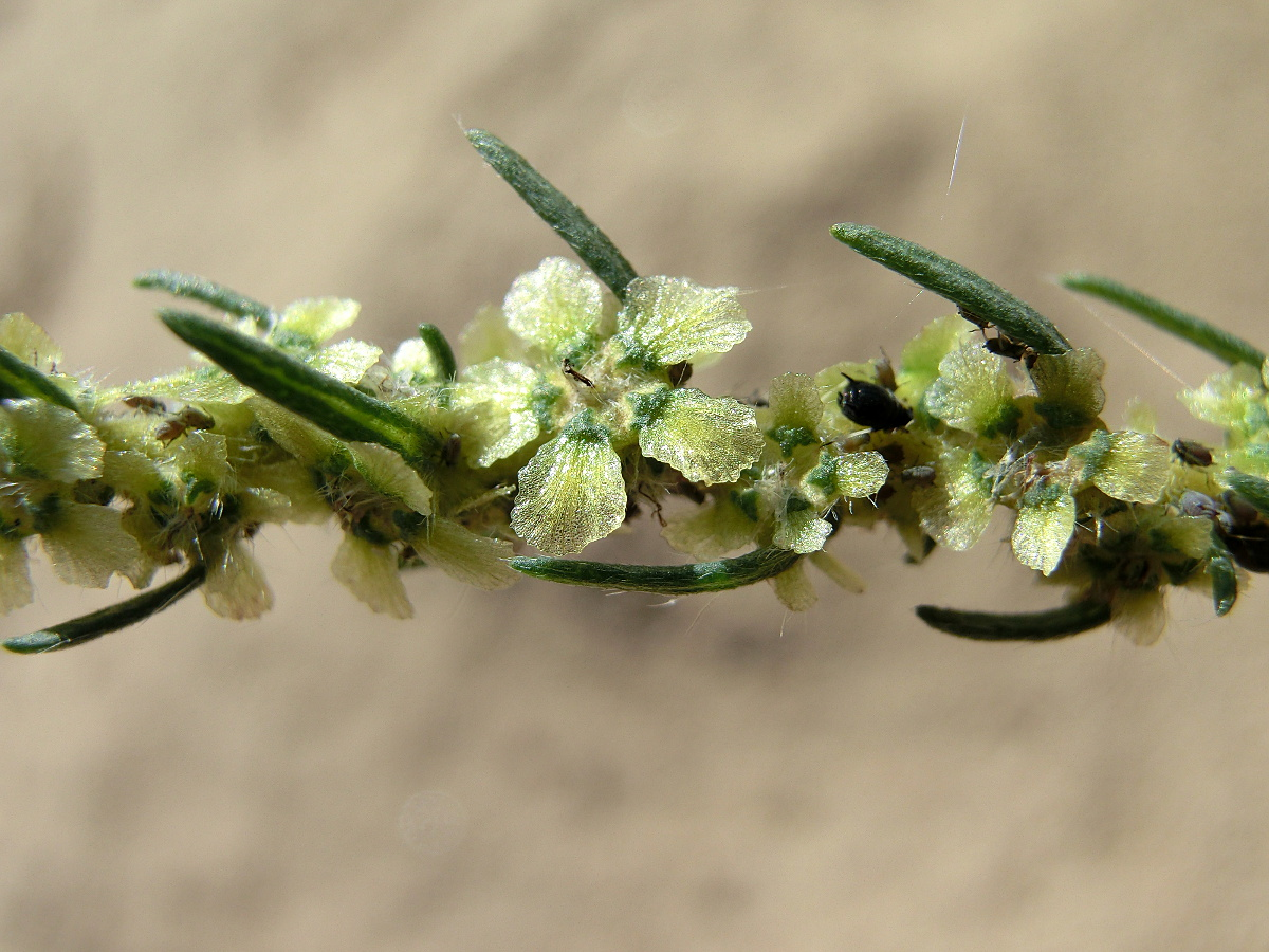 Bassia laniflora, fruits, sand dune at Darmstadt-Eberstadt, Hessia, Germany.